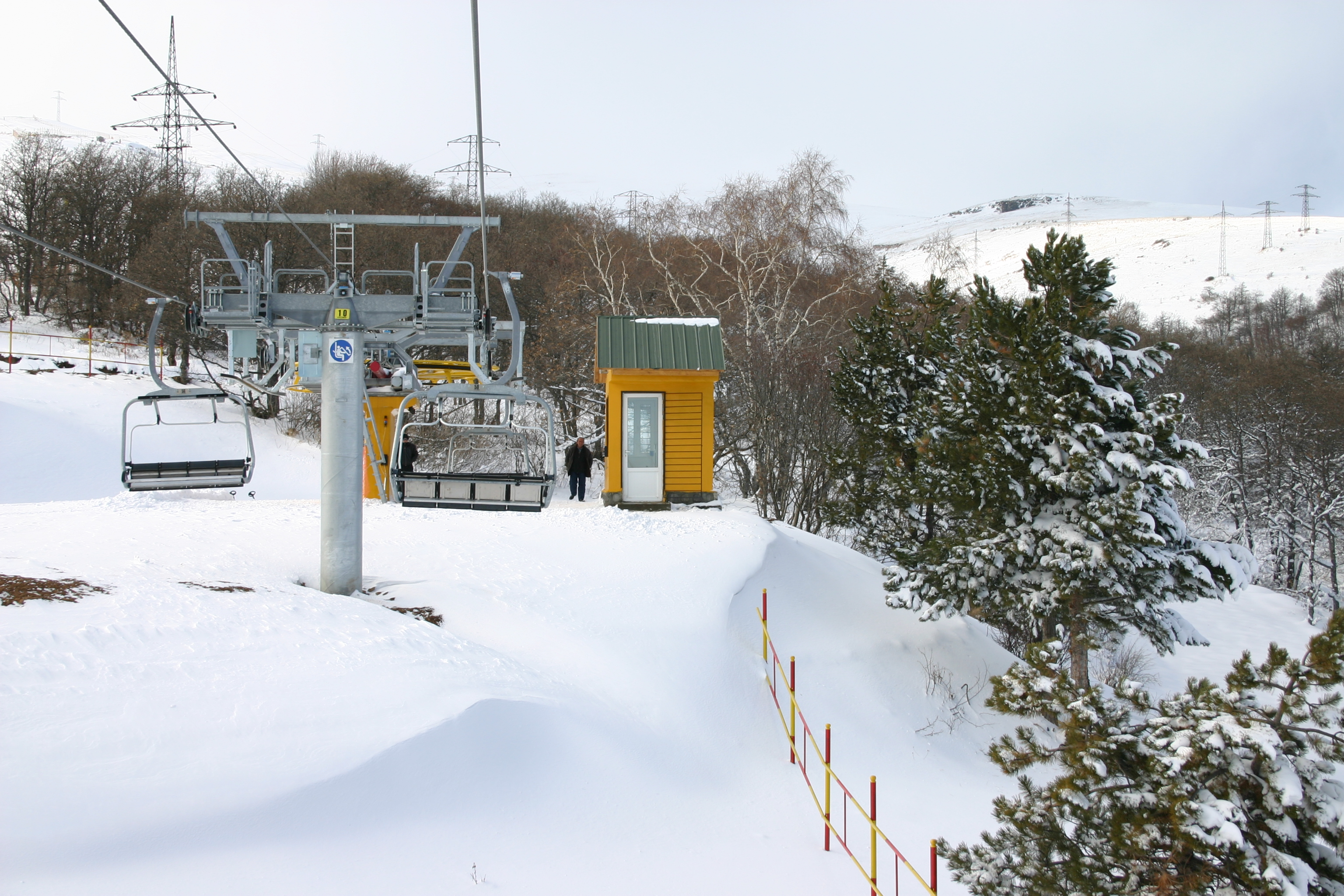 The first ski lift.